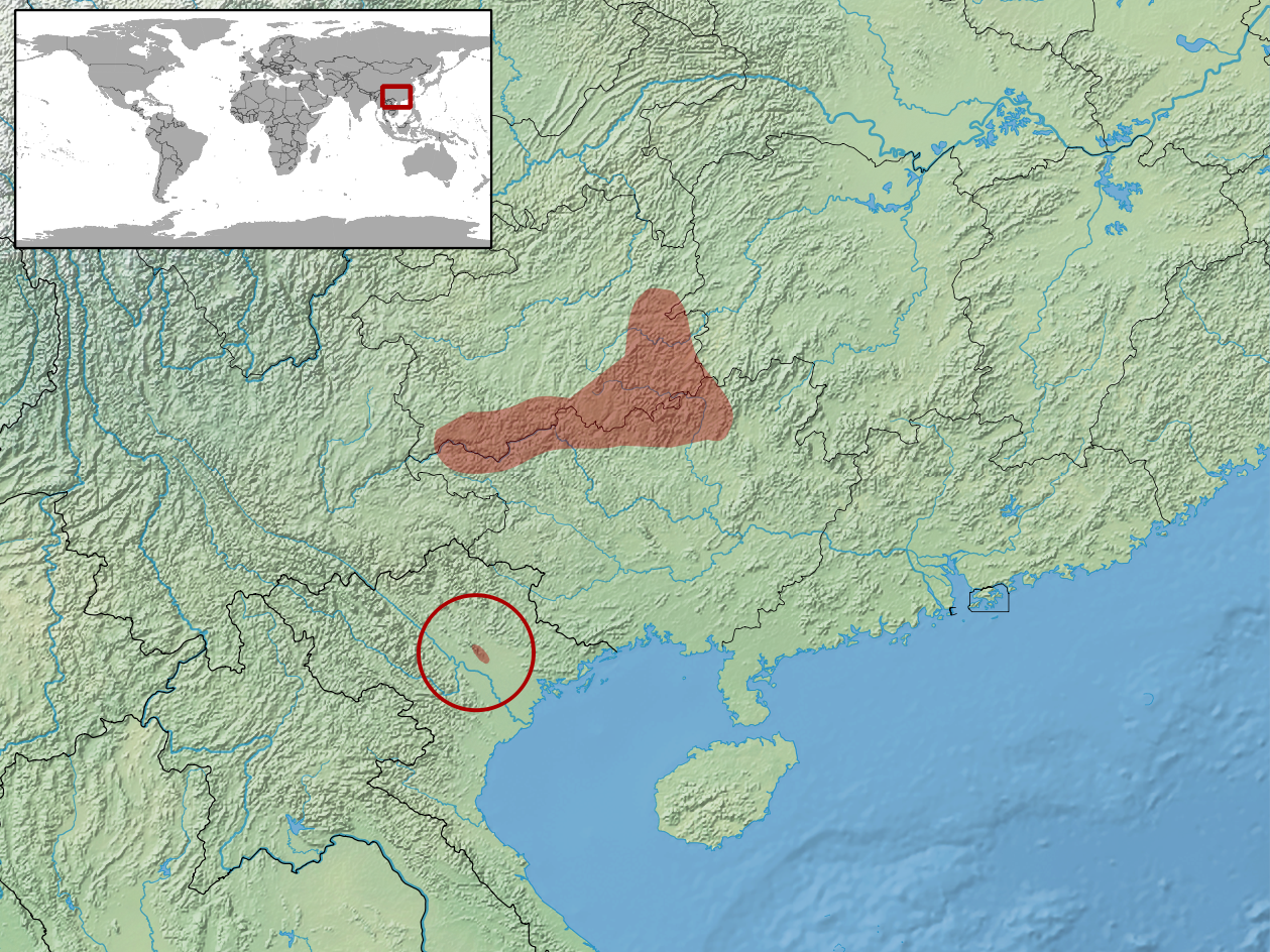 geographic distribution of Achalinus ater (Native: China (Guangxi, Guizhou); Viet Nam)